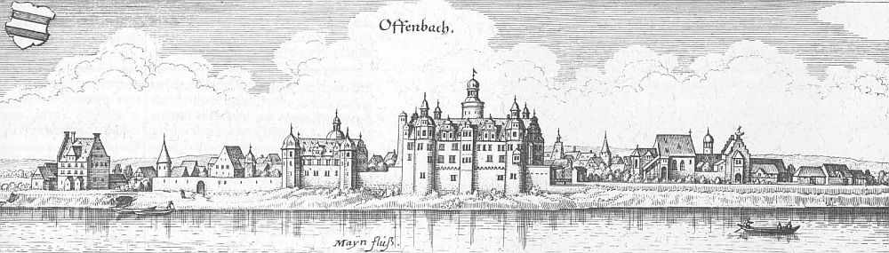 This is a scan of the historical document: Title: Offenbach - Topographia Hassiae language: german